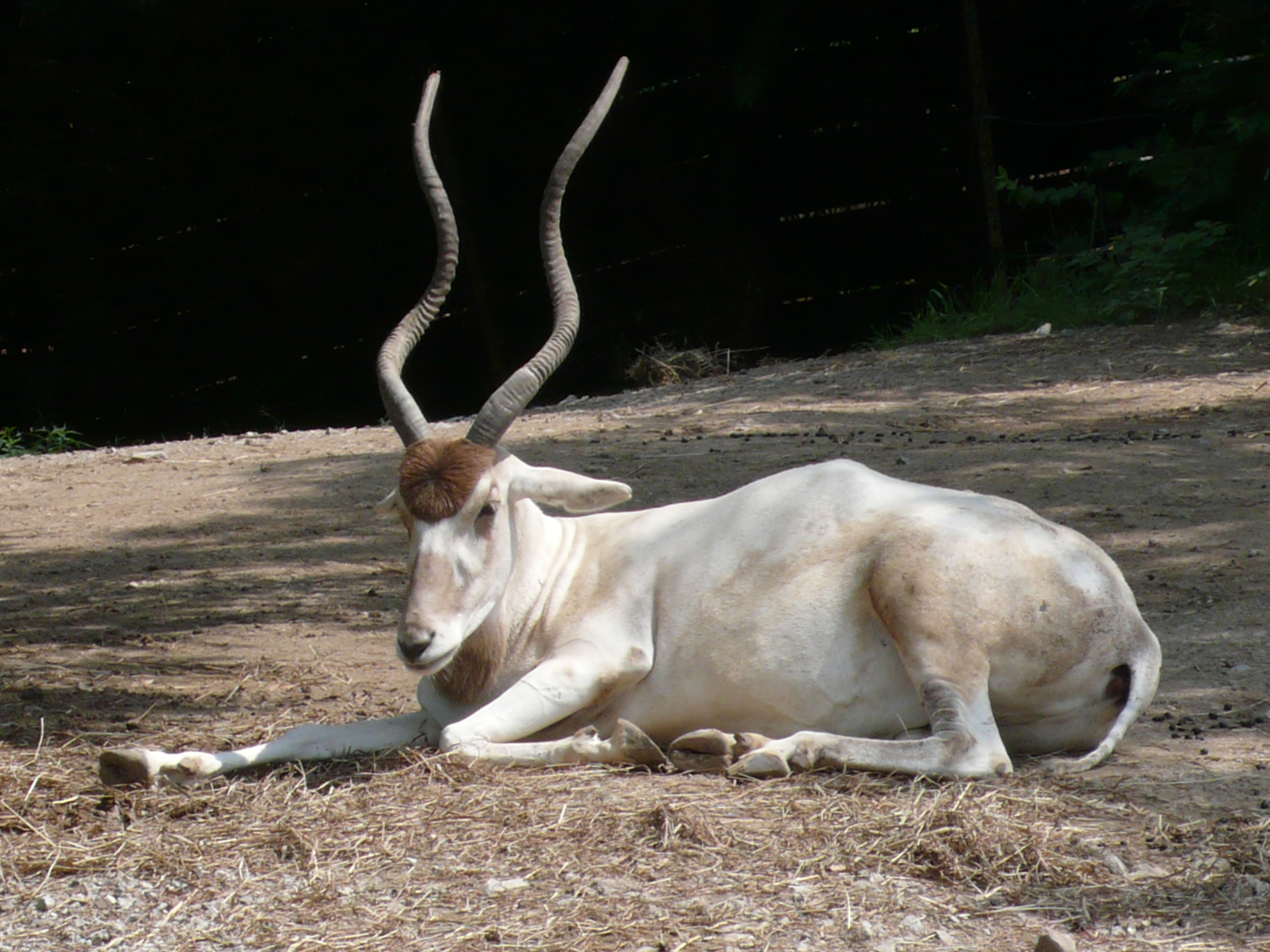 Addax (Addax nasomaculatus)